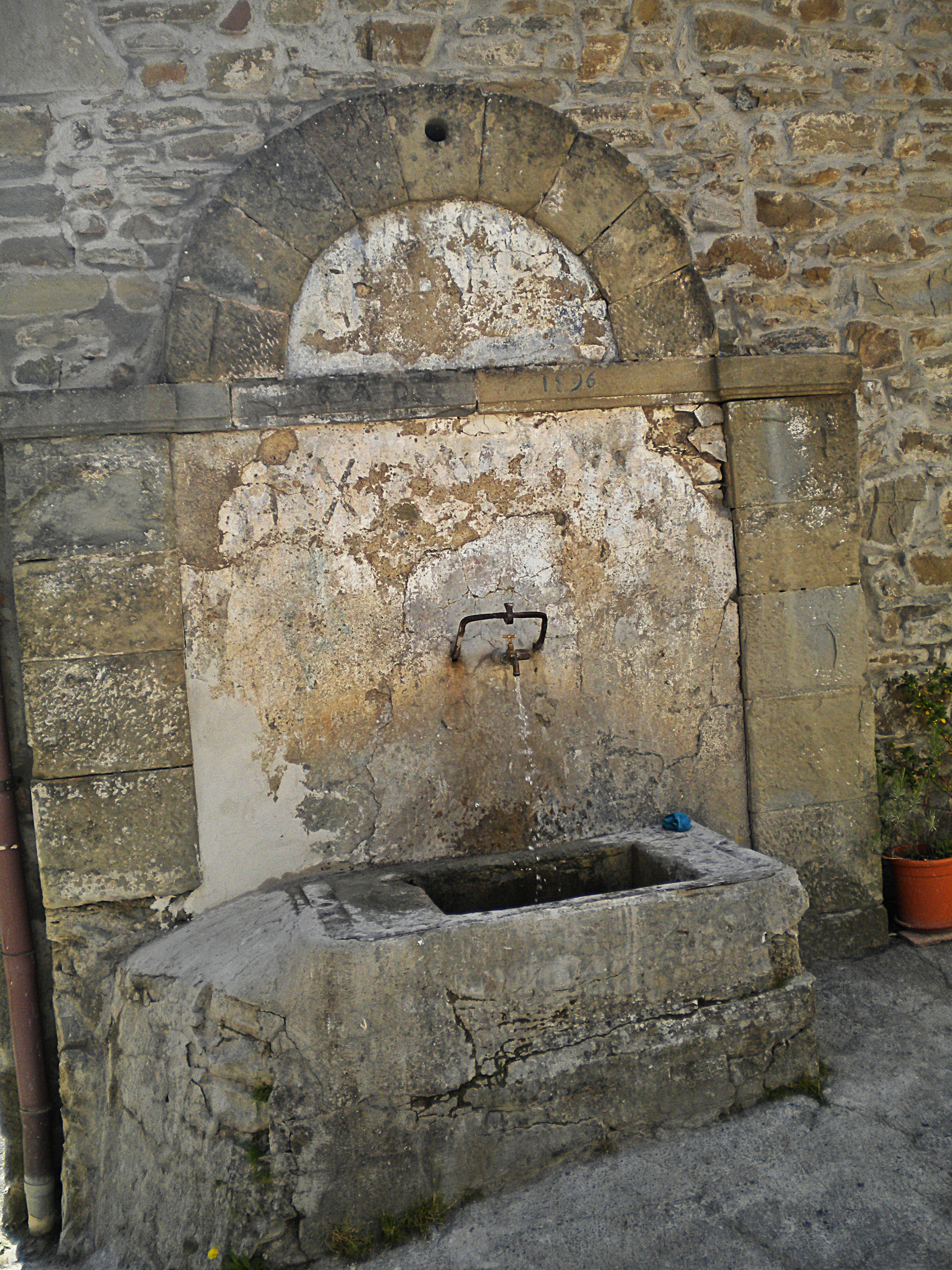 The fountain near san rocco church